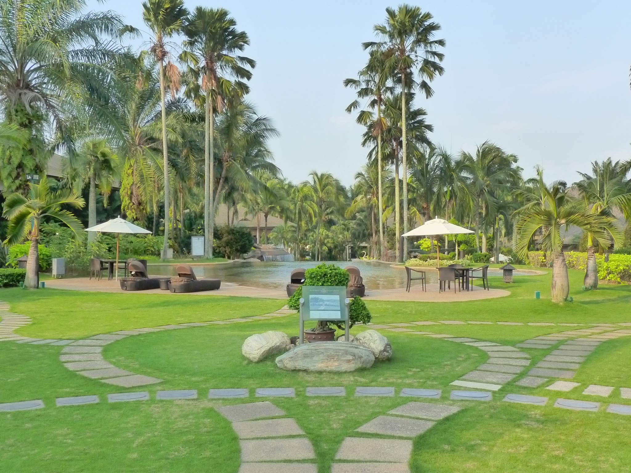 Cyberview Lodge in Cyberjaya in Feb 2011.